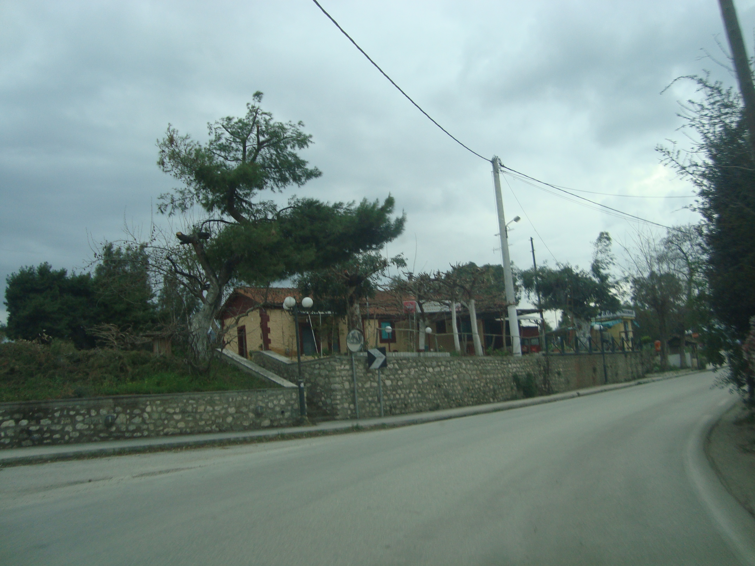 The old train station at Kamares, Loggos and Neos Erineos villages administrative boundaries.